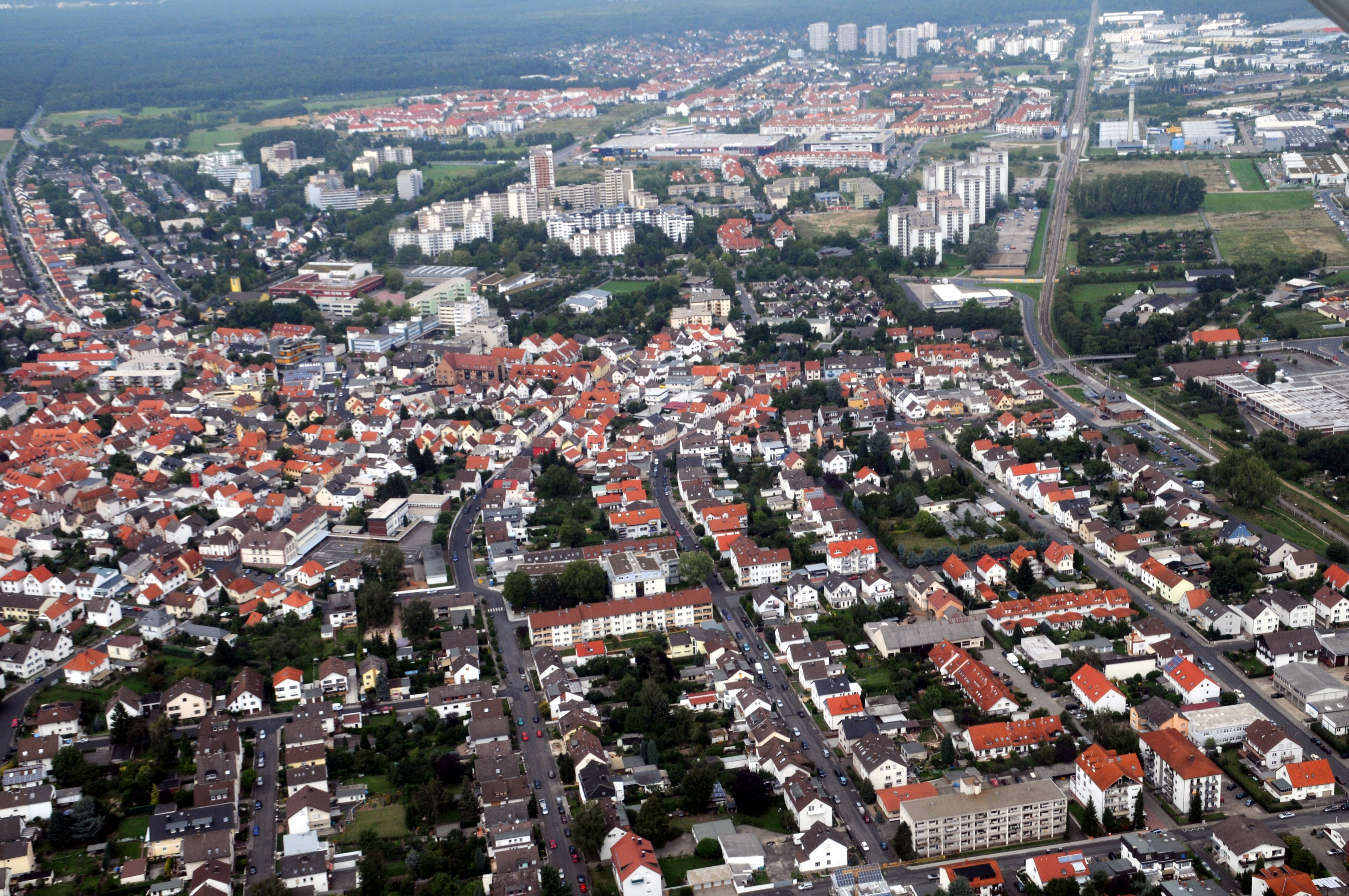 About two thirds of Dietzenbach, Hesse, Germany, aerial photograph. North on top.